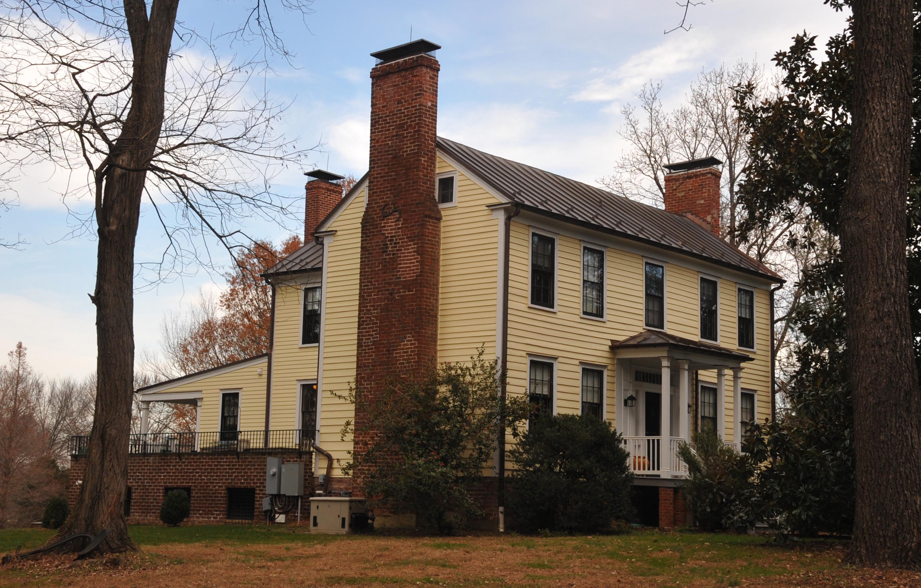 JOHN GUNNELL HOUSE; HOUSE DATES FROM 1851-51 ON LAND ACQUIRED BY WILLIAM GUNNEL III FROM BRYAN FAIRFAX IN 1791. IT NOW HOUSES THE GREAT FALLS HISTORICAL SOCIETY